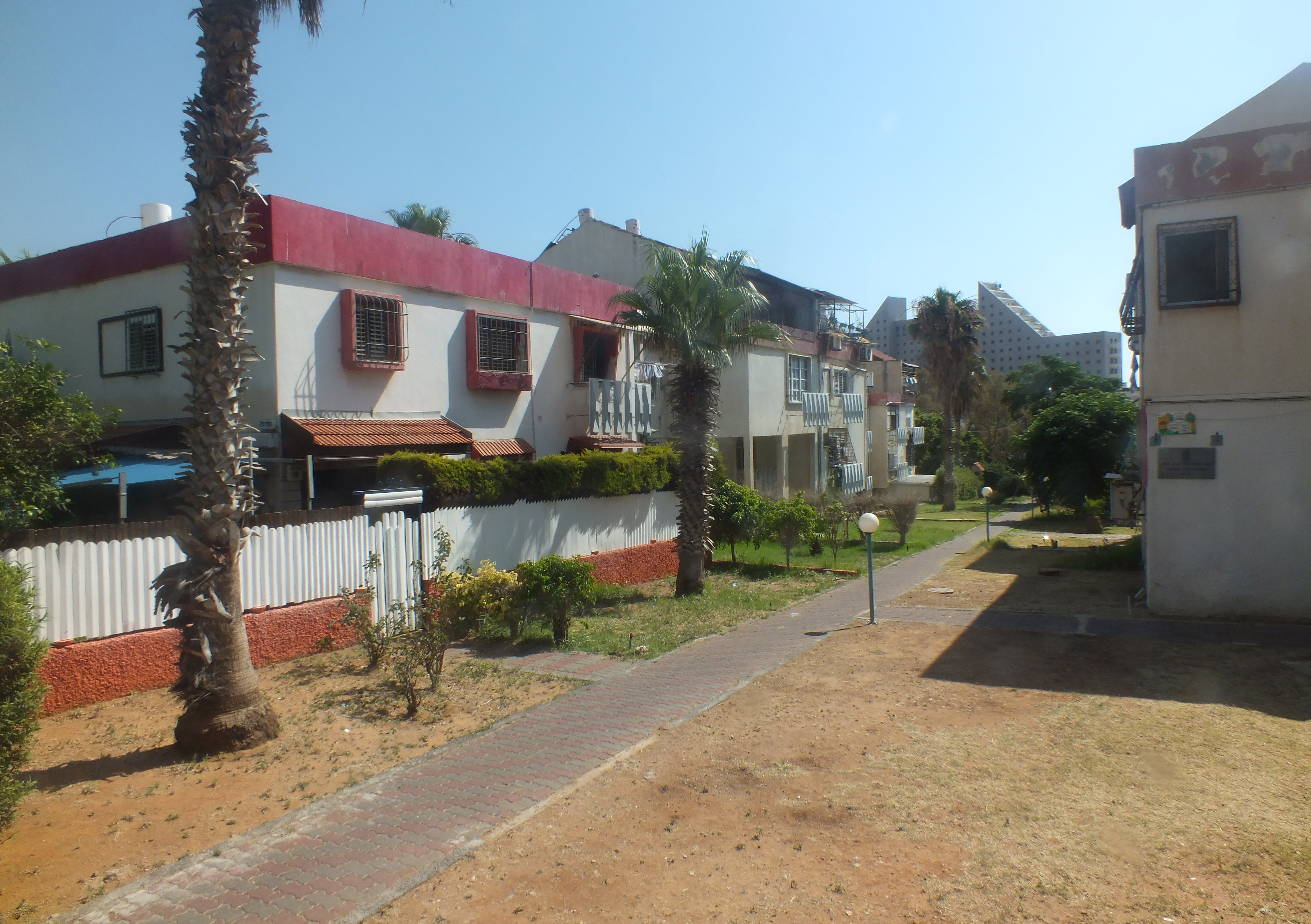 Rows of low-standing 1960s housing in West Haifa.